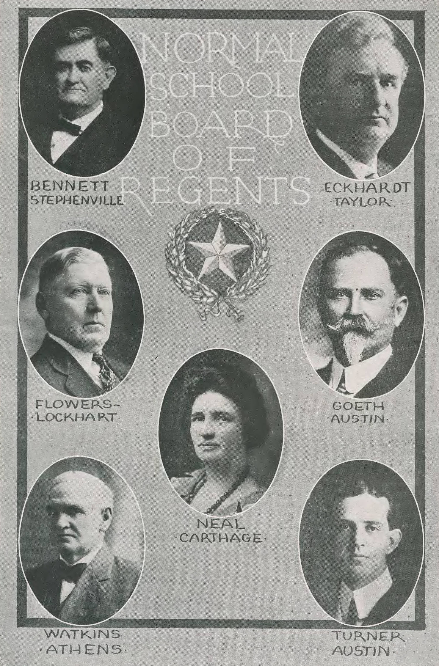 The Normal School Board of Regents featured in East Texas State Normal College's 1922 Locust yearbook.